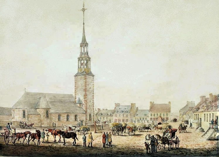 A watercolour view of the Montreal Market Place. In the foreground people and horse drawn carriages are depicted. In the background are several architectural structures.